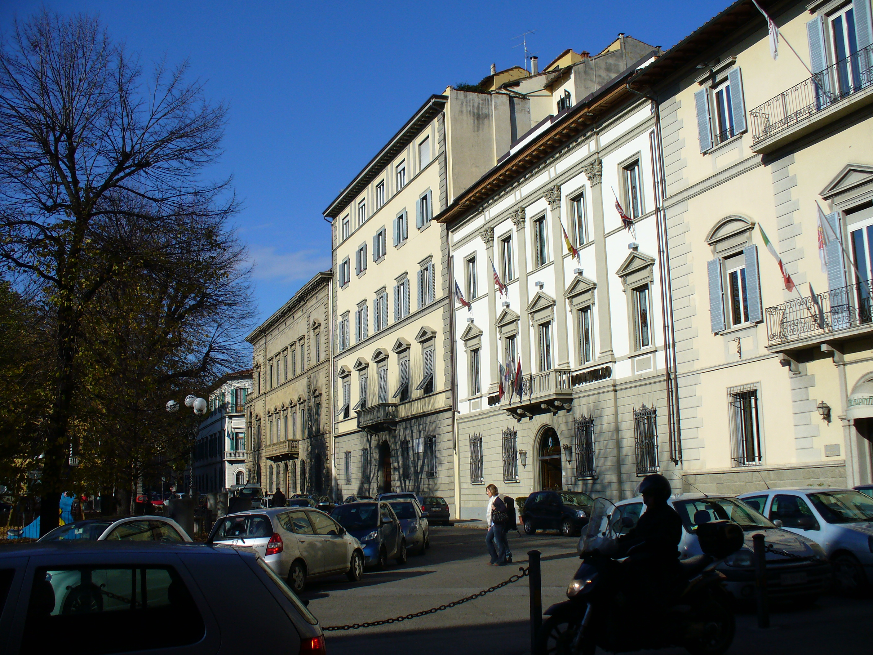 Edifici Piazza dell'Indipendenza (Florence)